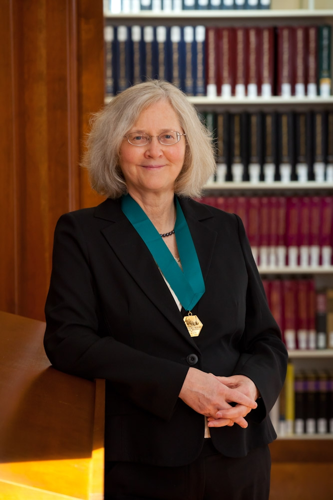 Photograph of Elizabeth Blackburn, Morris Herzstein Professor of Biology and Physiology in the Department of Biochemistry and Biophysics at the University of California, San Francisco (UCSF), received the 2012 American Institute of Chemists (AIC) Gold Medal, April 12, 2012 at Chemical Heritage Day at the Chemical Heritage Foundation, Philadelphia, PA, USA.